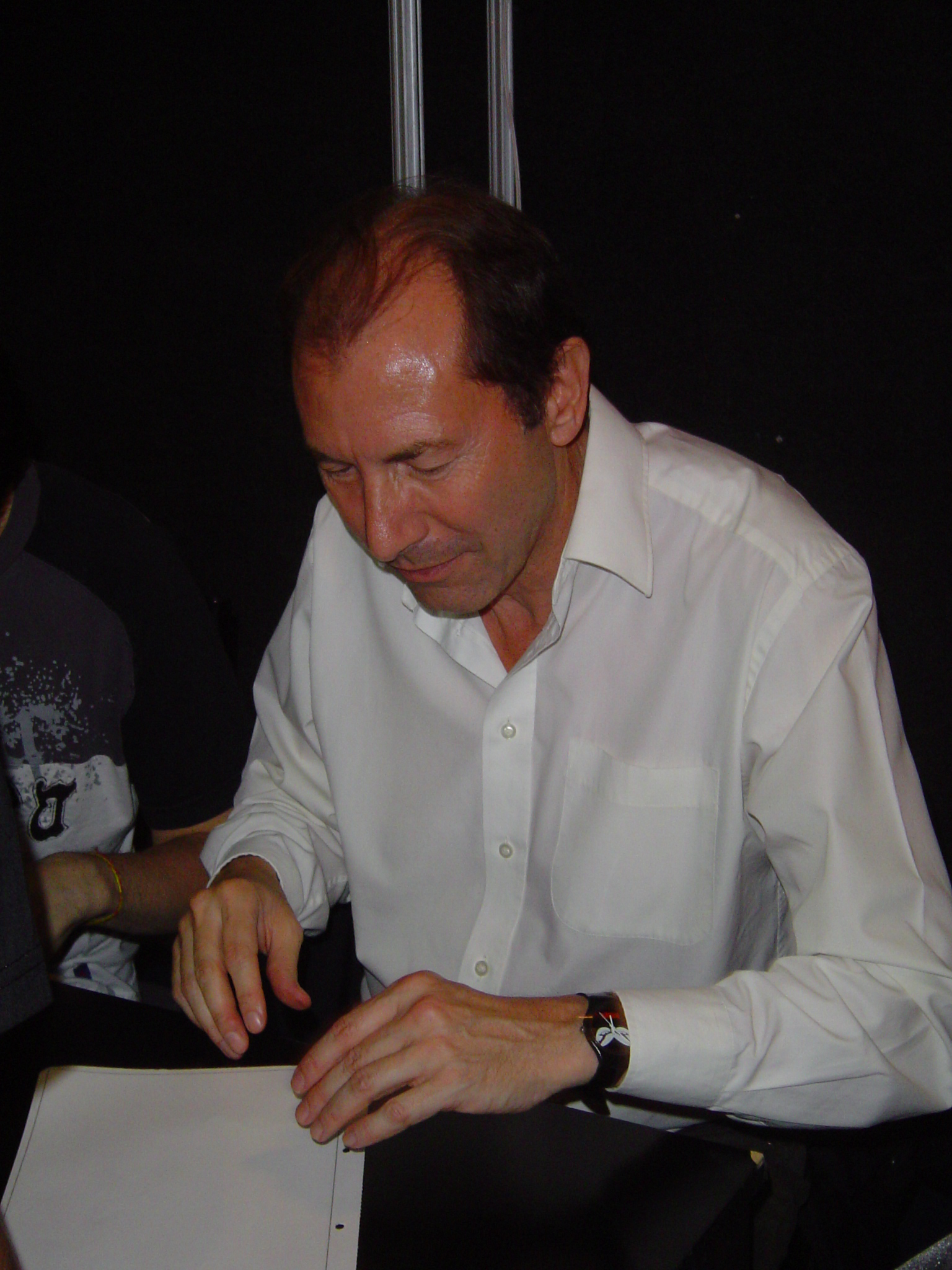 David Lloyd signing autographs in Megacomics 2006, Argentina.